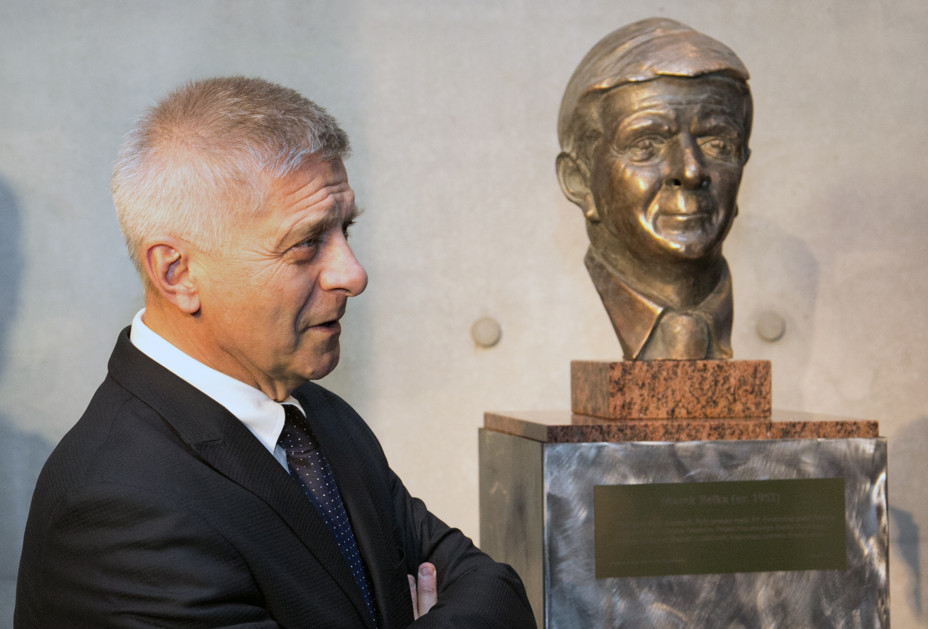 Marek Belka, unveiling ceremony Galeria Chwały Polskiej Ekonomii, March 6th, 2014 at Warsaw Stock Exchange